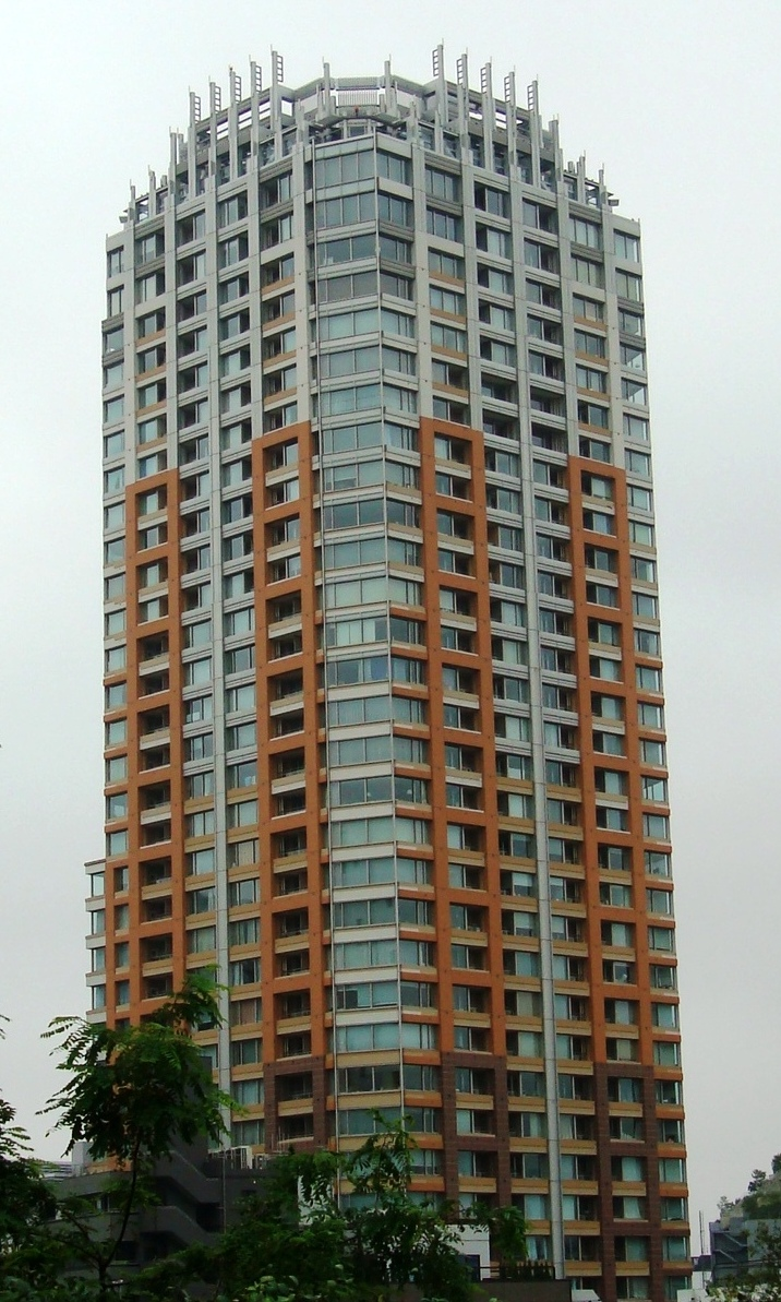 The Aoyama Park Tower apartment, Tokyo